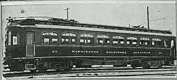 Electric interurban rolling stock pictured on a 1908 timetable of the Washington, Baltimore and Annapolis Electric Railway (WB&A).